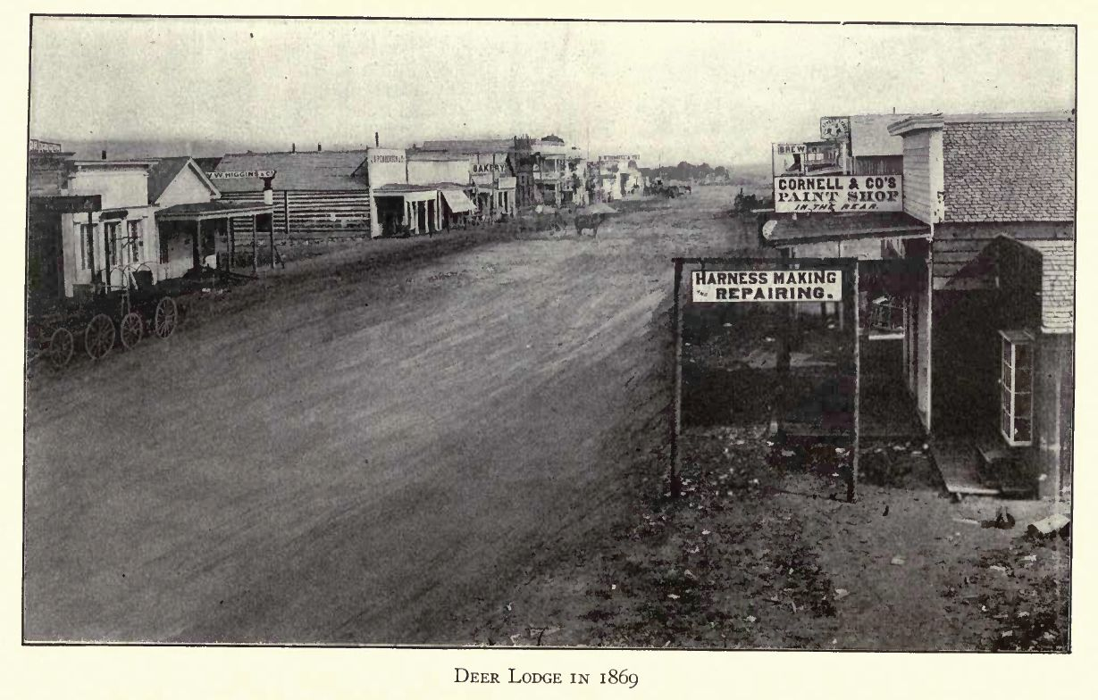 Photo of Deer Lodge, Montana 1869